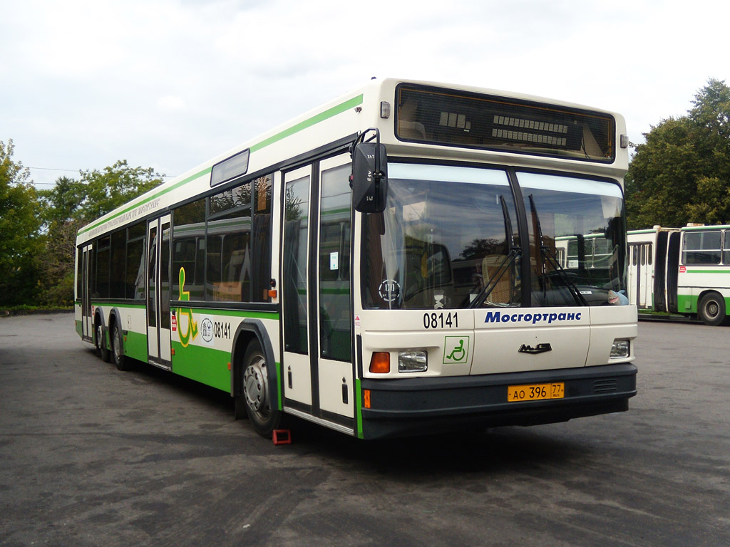 MAZ 107.066 bus (#08141) in Moscow, Russia. Built 2006, ГУП Мосгортранс (Мосгортранс Москва) operator.